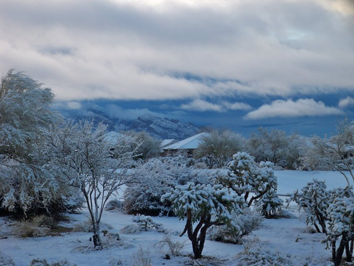 Snow in the Town of Oro Valley and Tucson, Arizona in February, 2011.